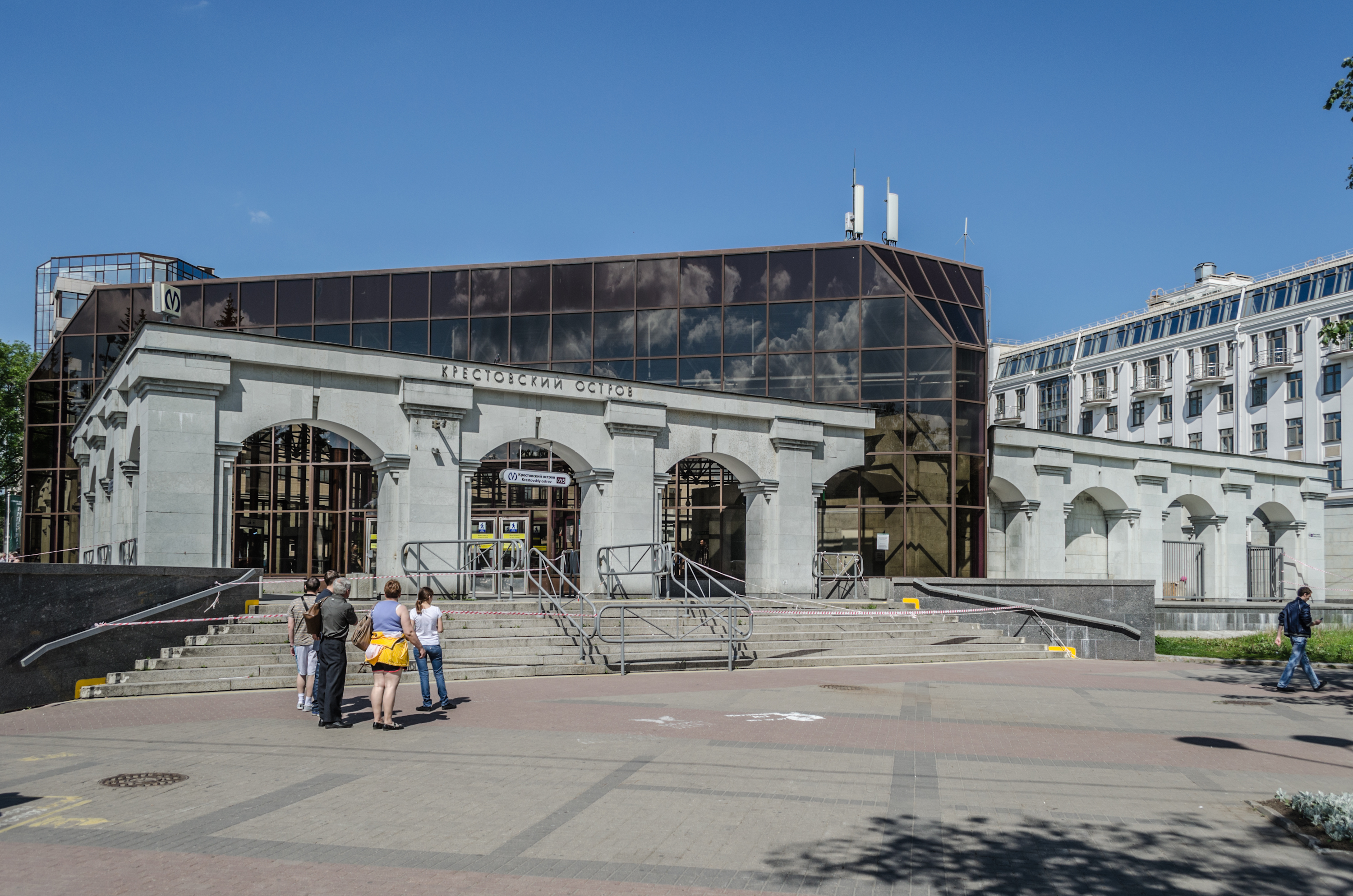 Krestovskiy Ostrov station of Saint Petersburg Subway, pavilion